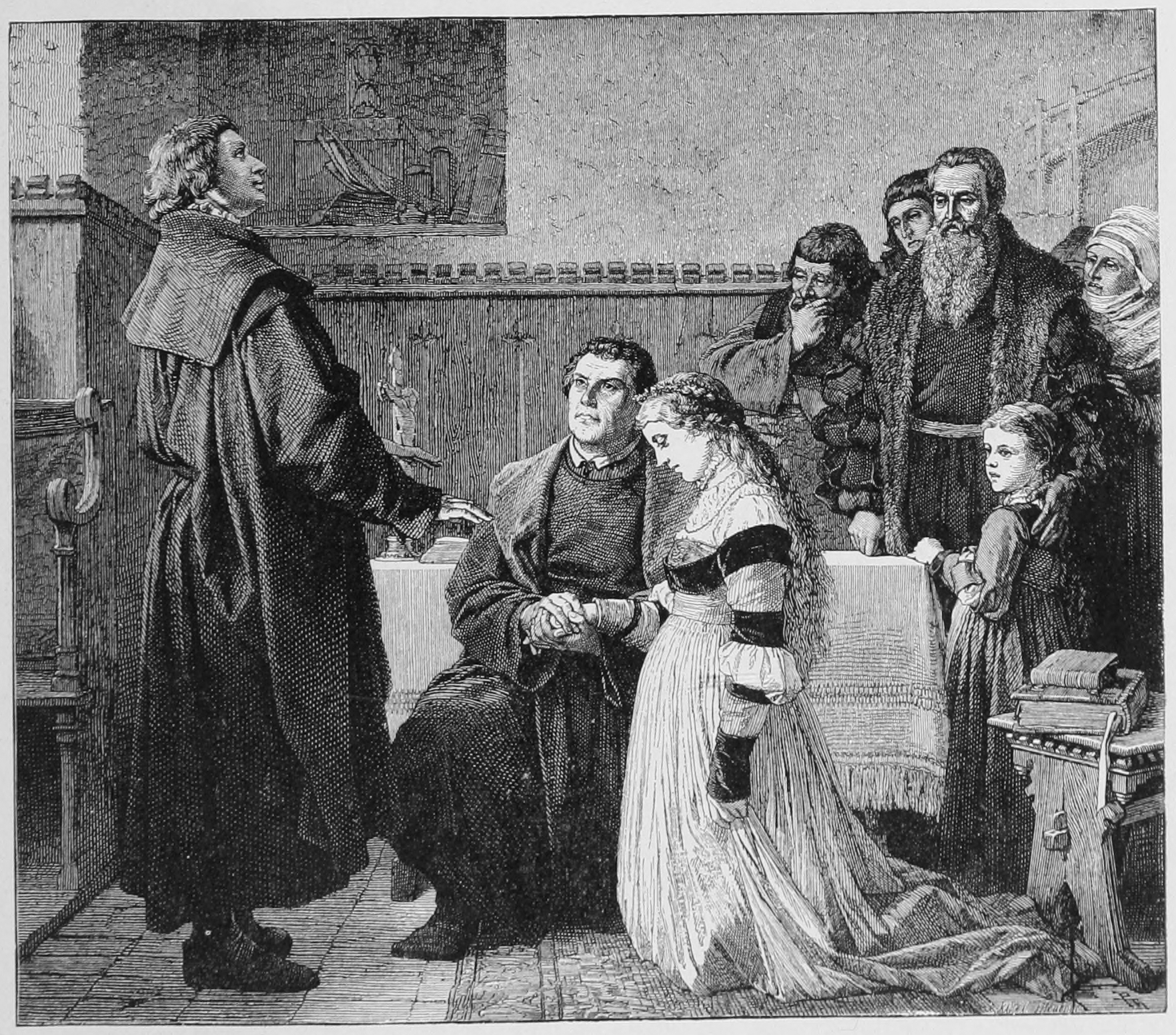 The number is a page number in the book, "Woman Triumphant"; the story of her struggles for freedom, education, and political rights. Dedicated to all noble-minded women by an appreciative member of the other sex by Author: Rudolf Cronau. (1919). The name of the image is the caption name. Follow the link from the image to the full book